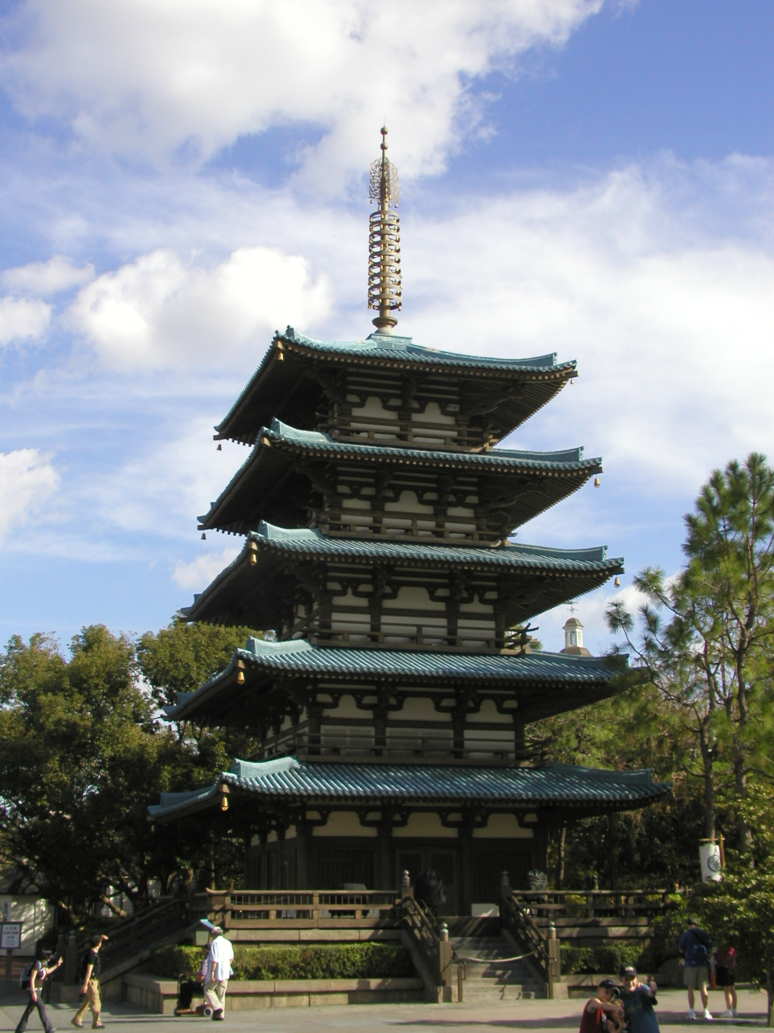 The pagoda at the Japan pavilion at Epcot at Walt Disney World.